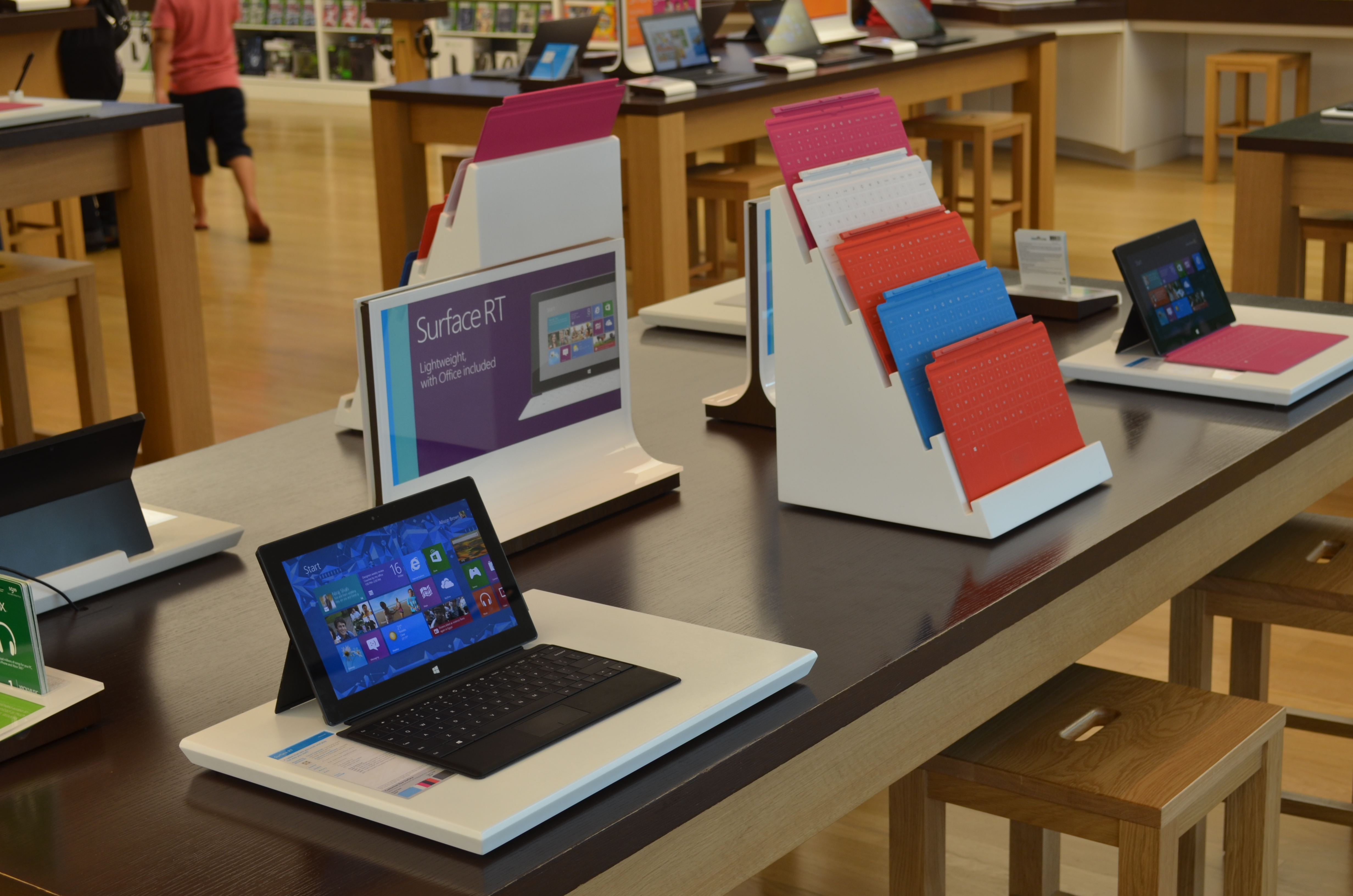 Toronto Microsoft Store